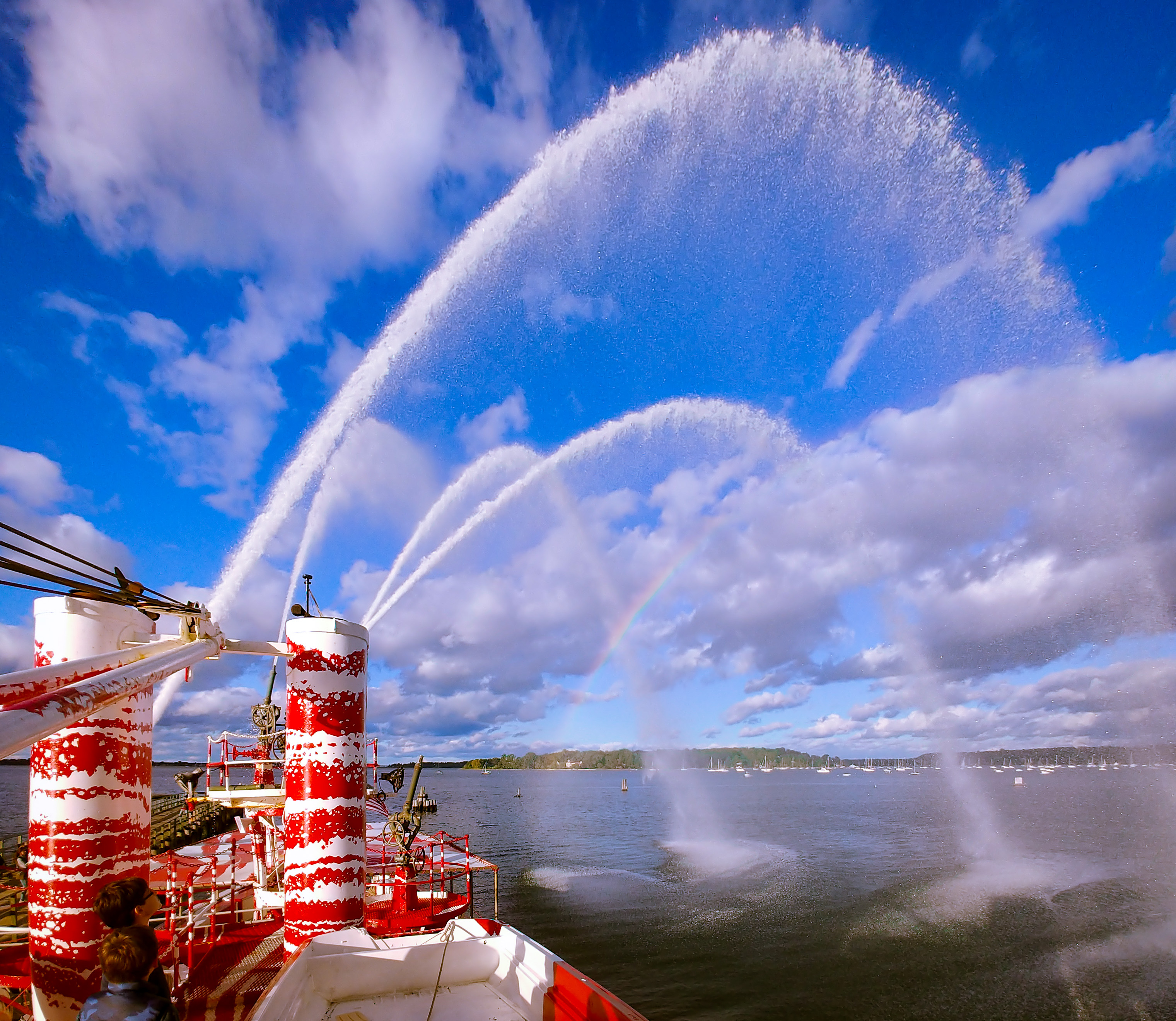 Onboard view of Fireboat John J. Harvey water pumping demonstration at Oyster Bay, New York Oyster Festival 2018